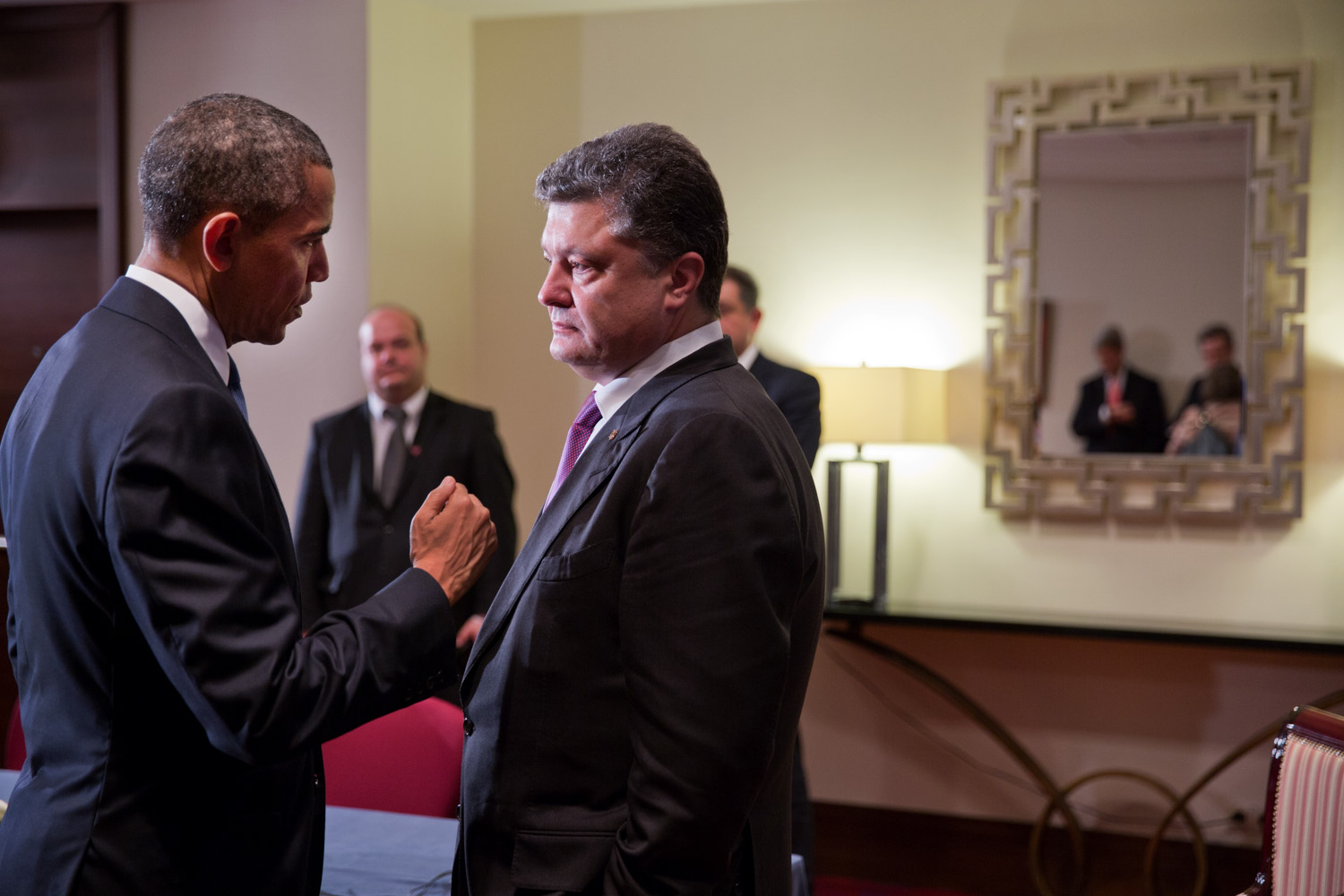 President Barack Obama speaks to President Petro Poroshenko of Ukraine after statements to the press following their bilateral meeting at the Warsaw Marriott Hotel in Warsaw, Poland, 4 June 2014. (Official White House Photo by Pete Souza.)